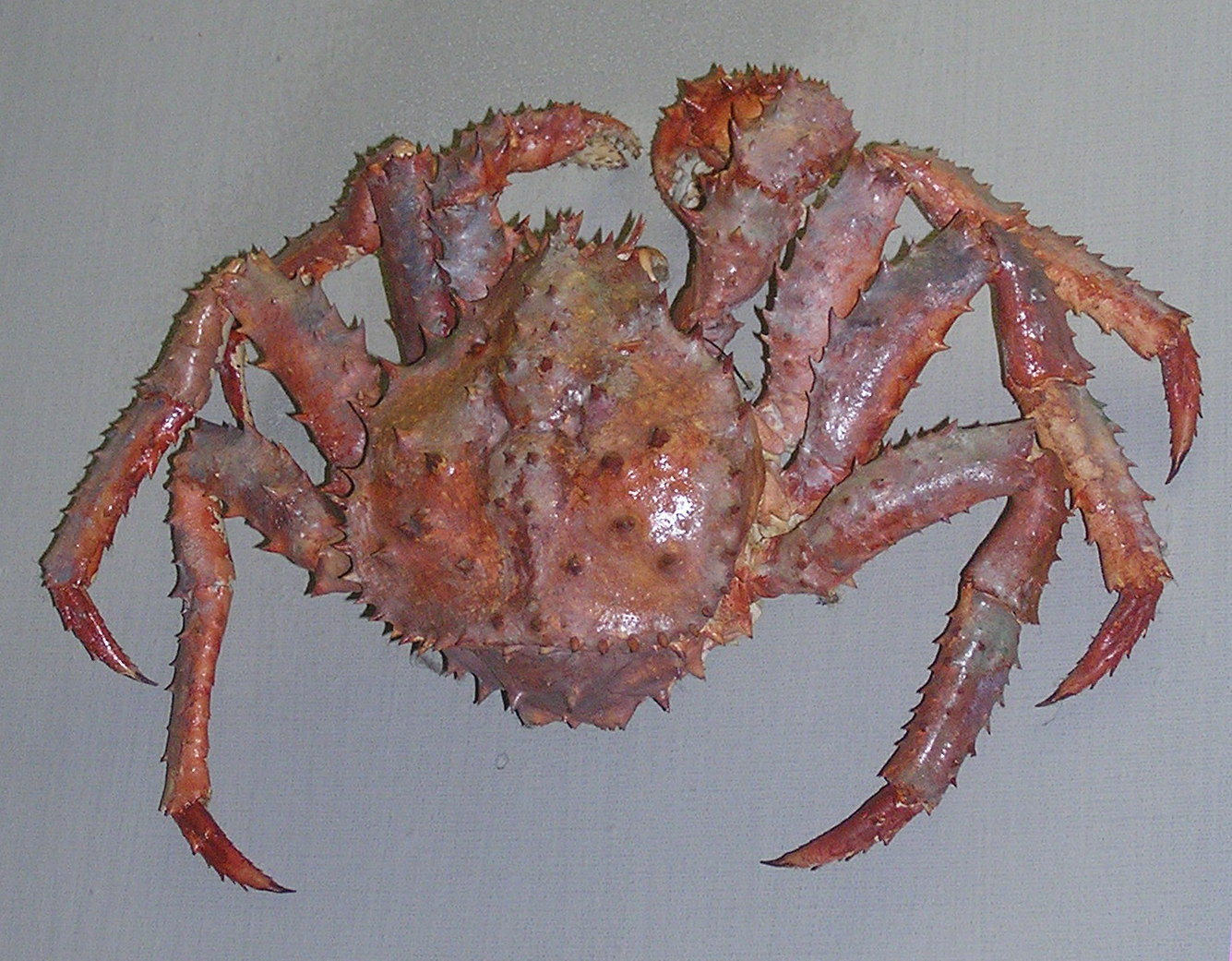 Blue king crab (Paralithodes platypus). Saint Petersburg Museum of Zoology, Russia